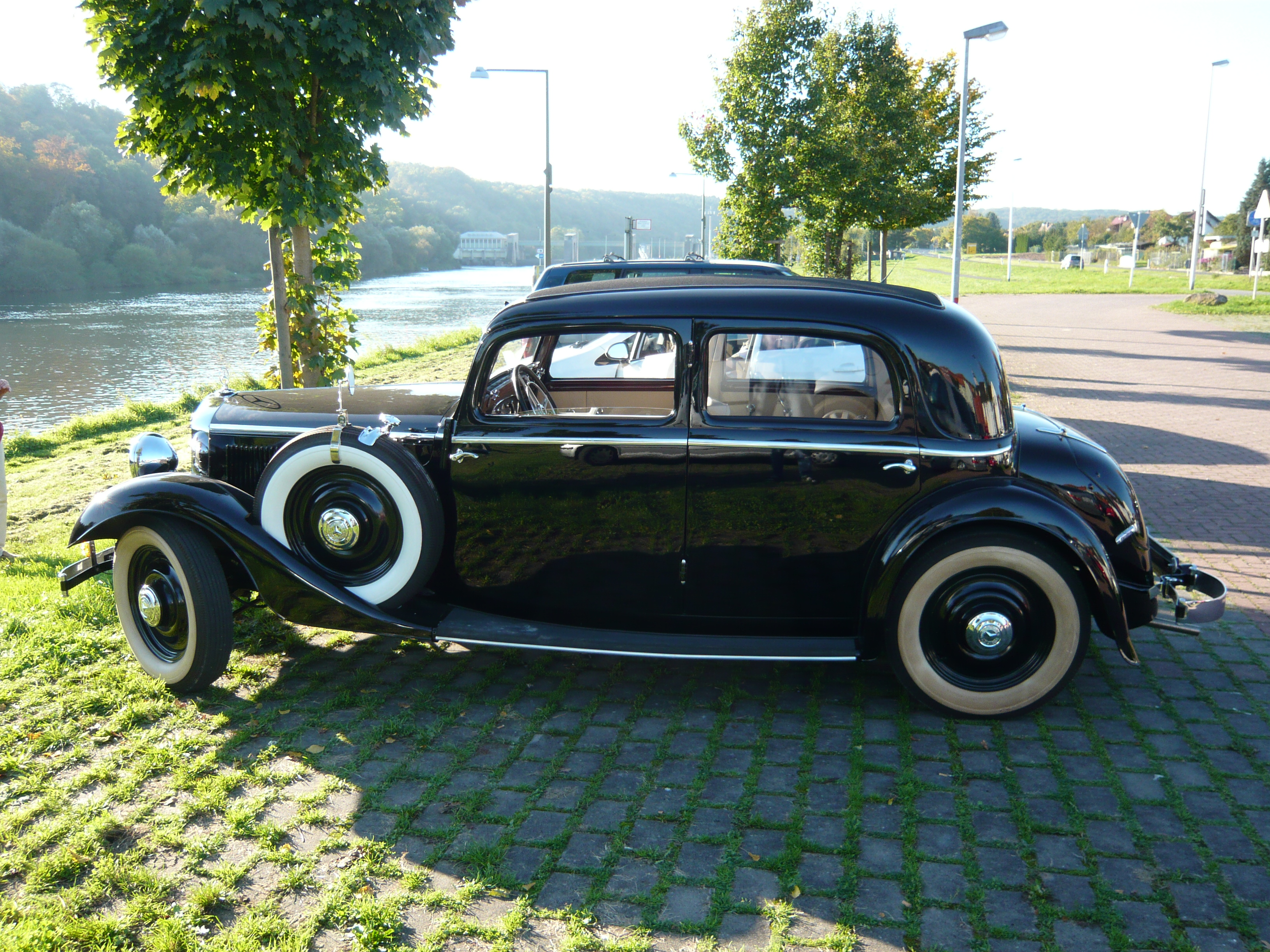 Mercedes-Benz w21 200 1935 40HP 2000ccm 6Cylinder Engine